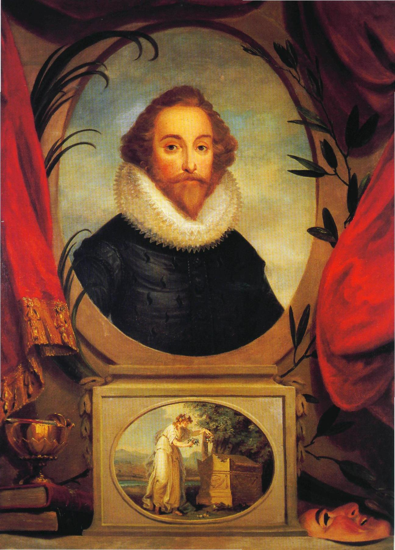 imaginary portrait of Shakespeare